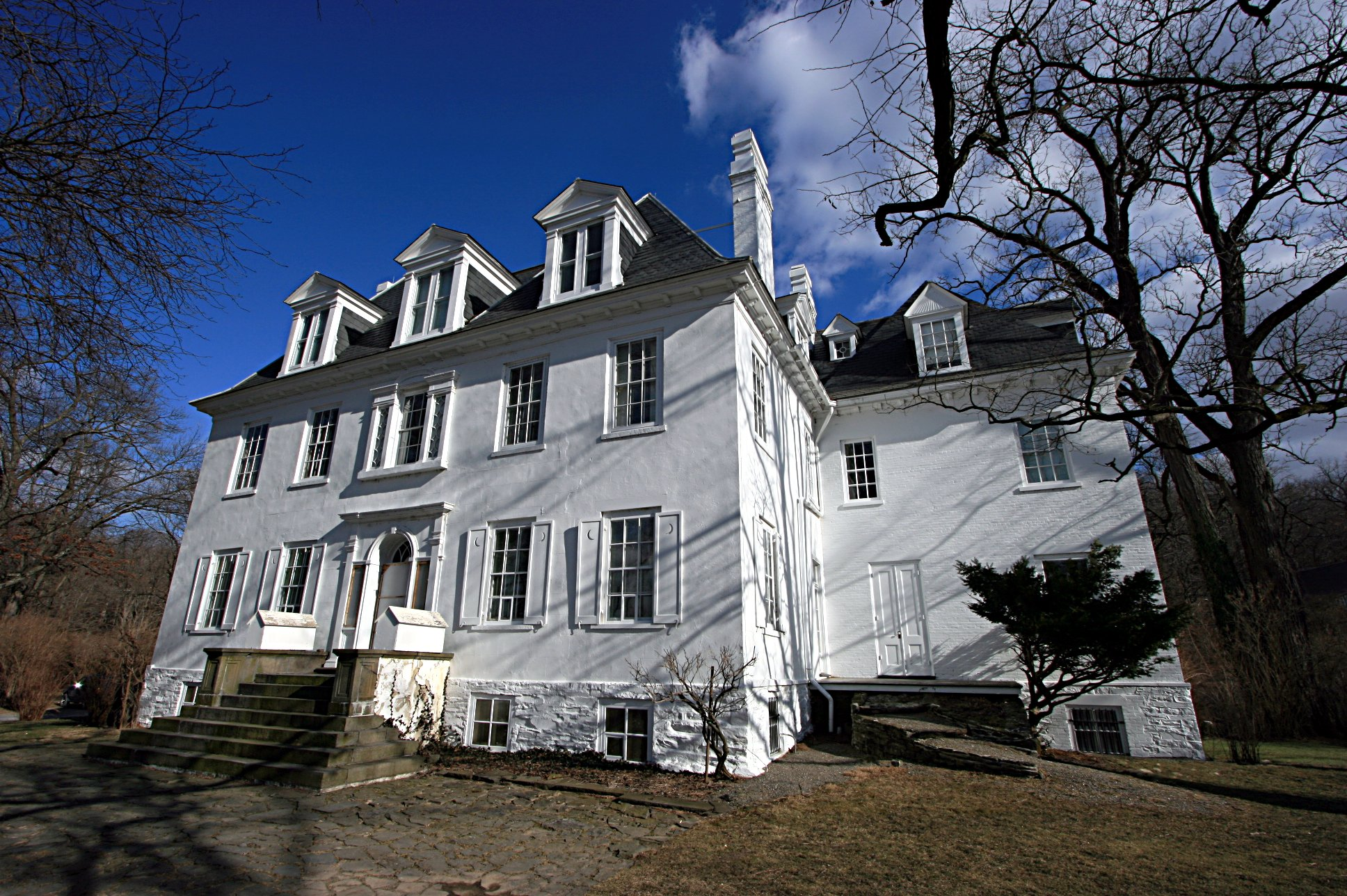 Photograph of the front side (facing the Hudson River) of Clermont Manor, Columbia County, New York, USA